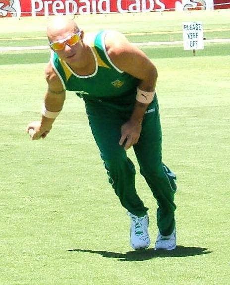 Herschelle Gibbs at a training session at the Adelaide Oval